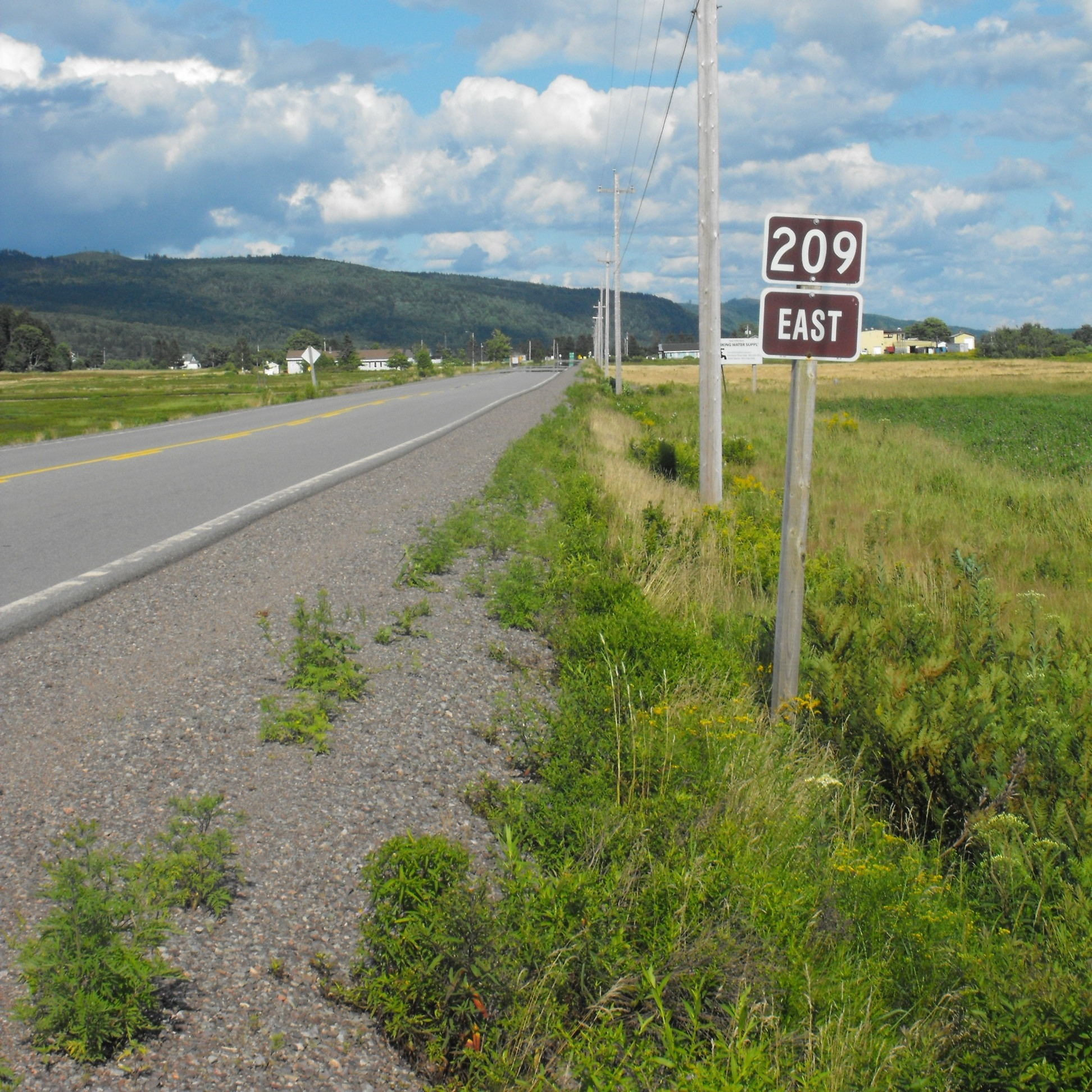 Nova Scotia Route 209 outside Parrsboro, Nova Scotia